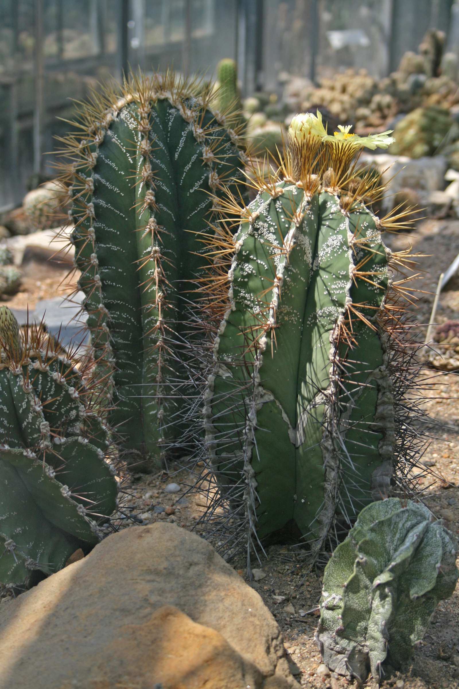 Cactus Astrophytum ornatum from the Botanical Gardens of Charles University, Prague